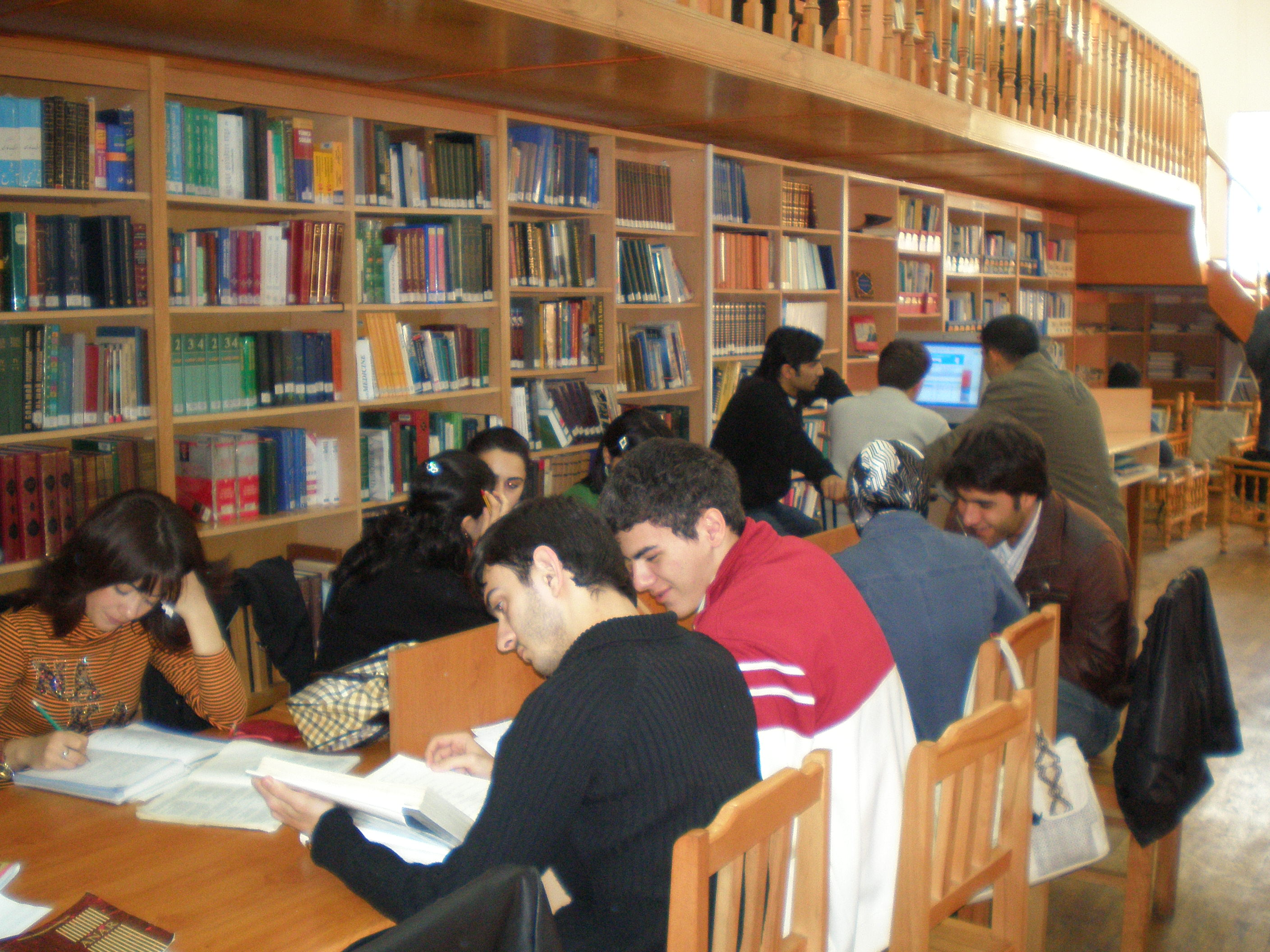 Students